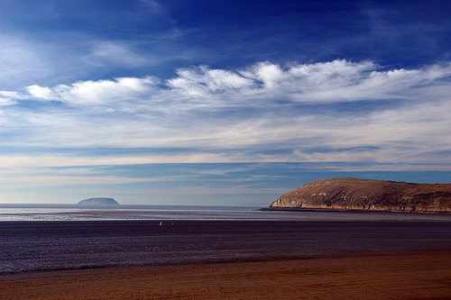 Brean Down, Somerset. Larger version available here, but I'm not relicensing that.